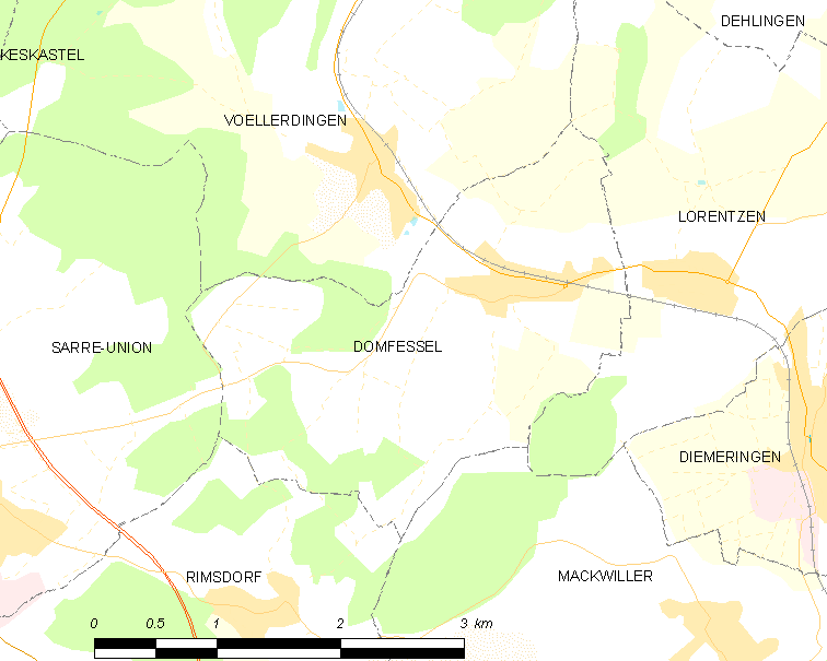 Map of French municipality